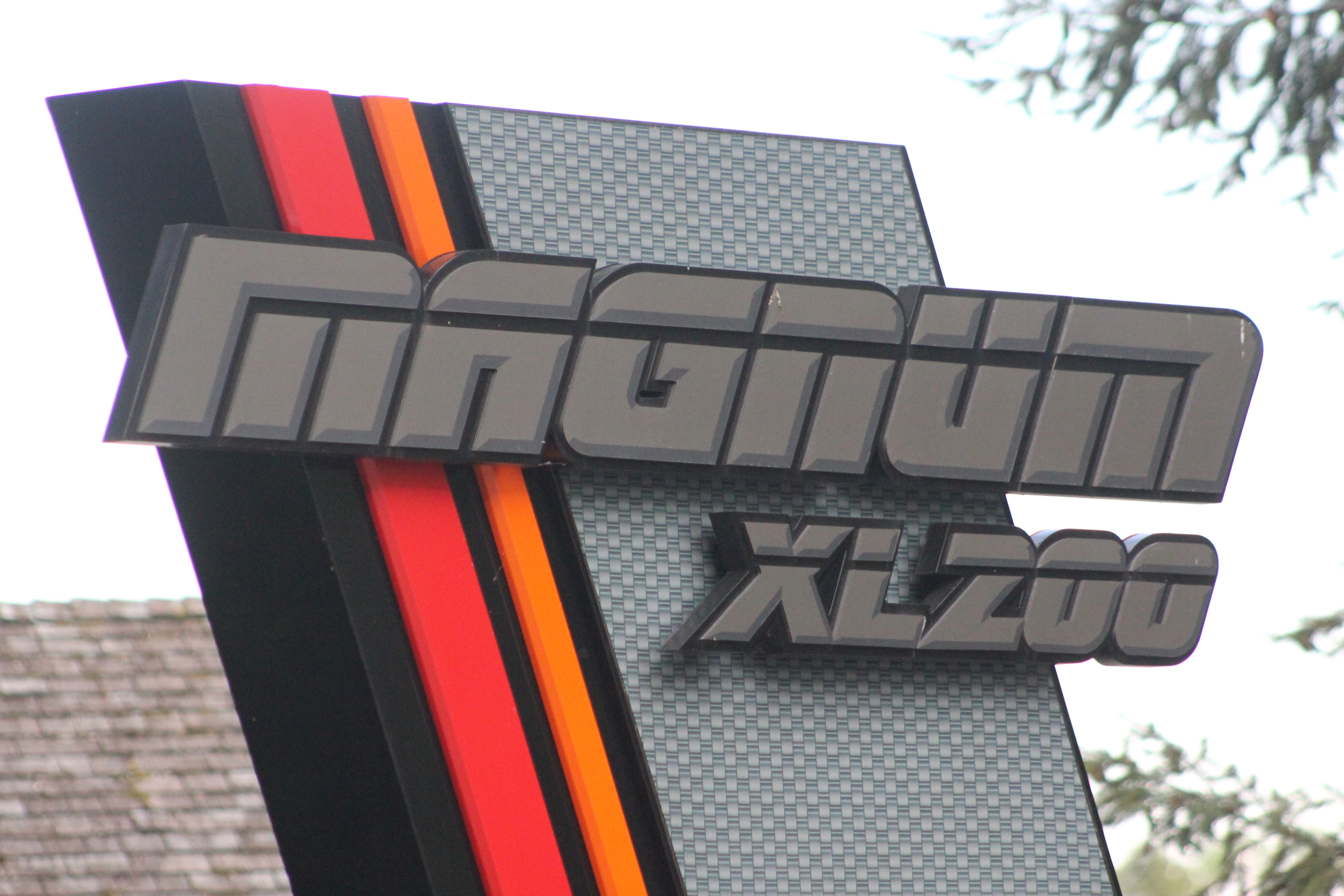 This is the entrance sign of Magnum at Cedar Point